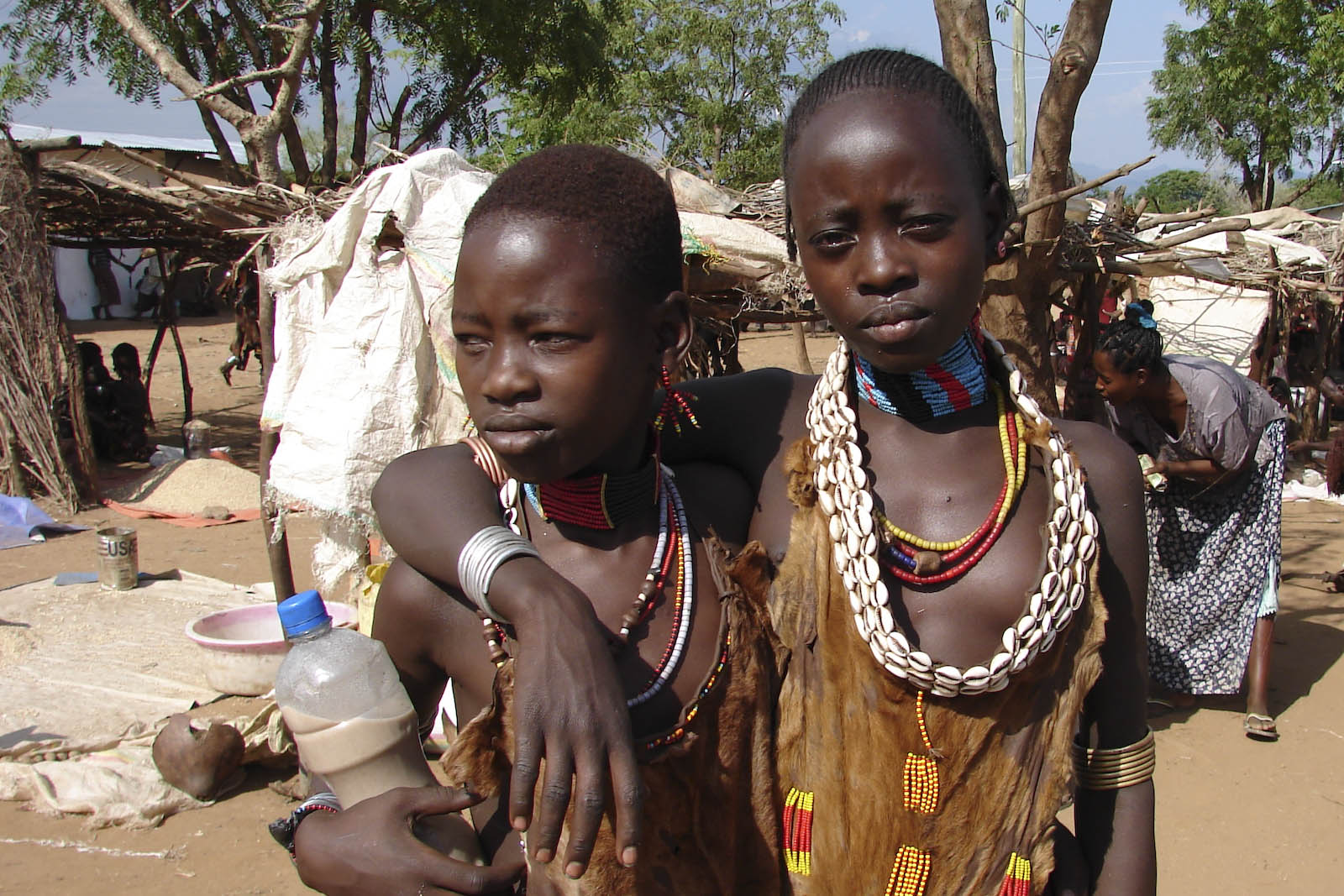 Hamer tribe in Turmi (Ethiopia)